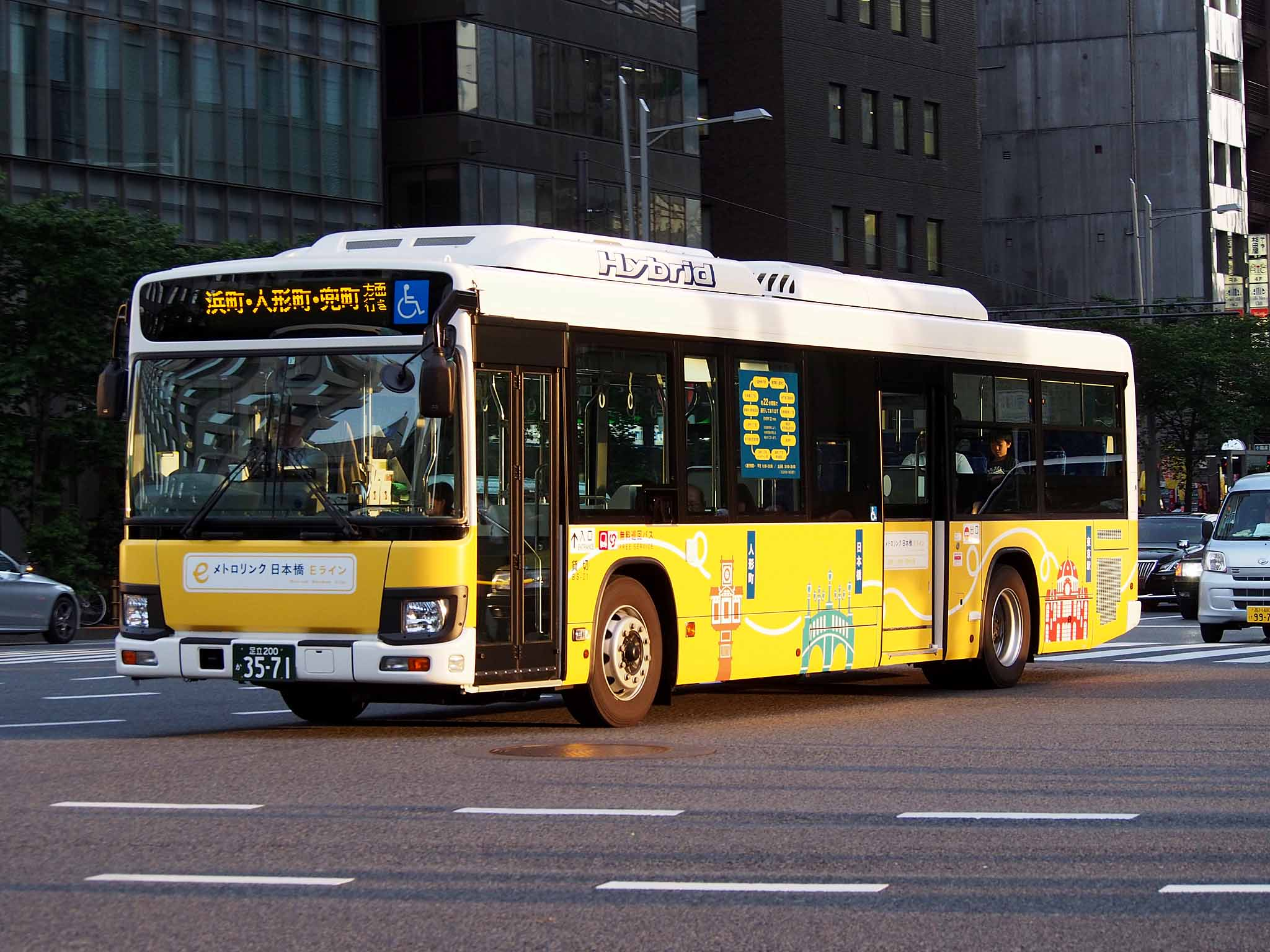 Fleet of "Metro Link Nihonbashi E-Line". Model: Hino Blue Ribbon Hybrid HL2A License plate: TKA200 KA3571 Place: Gofukubashi Crossing, Chuo Ward, Tokyo Japan